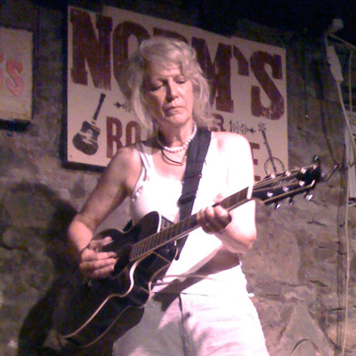 Marshall Chapman at Norm's River Roadhouse in Nashville, Tennessee